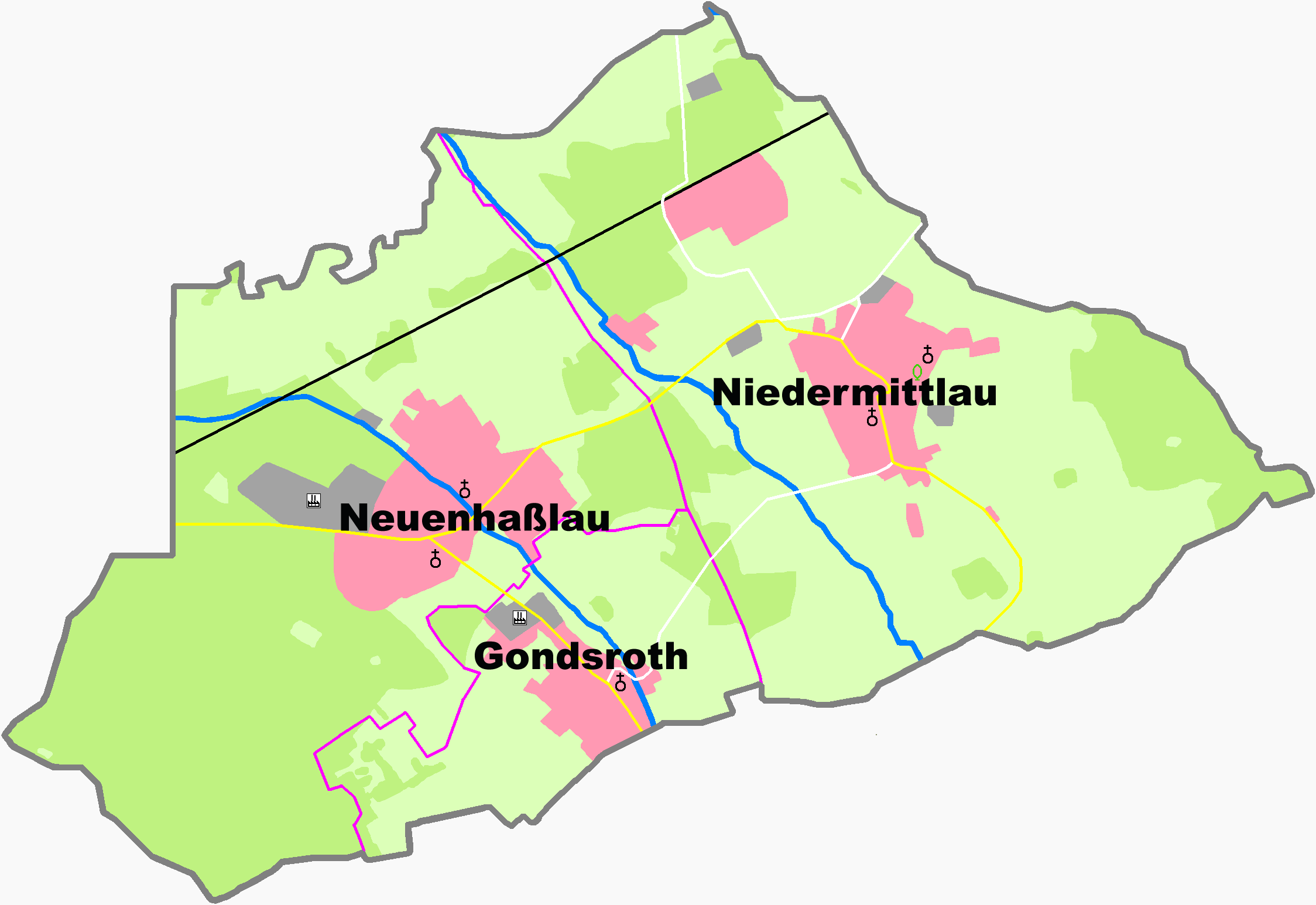 Municipal area and districts of Hasselroth Grassland, Meadow Settlement area Industrial area Forest Body of water Municipal border District border Main street Side street Railway Industrial park Church Natural monument